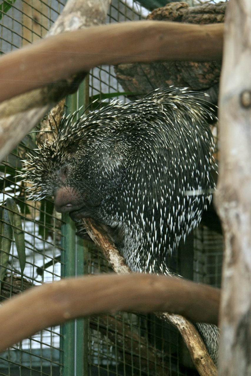 Prehensile-tailed Porcupine (Coendou prehensilis) in Smithsonian National Zoo